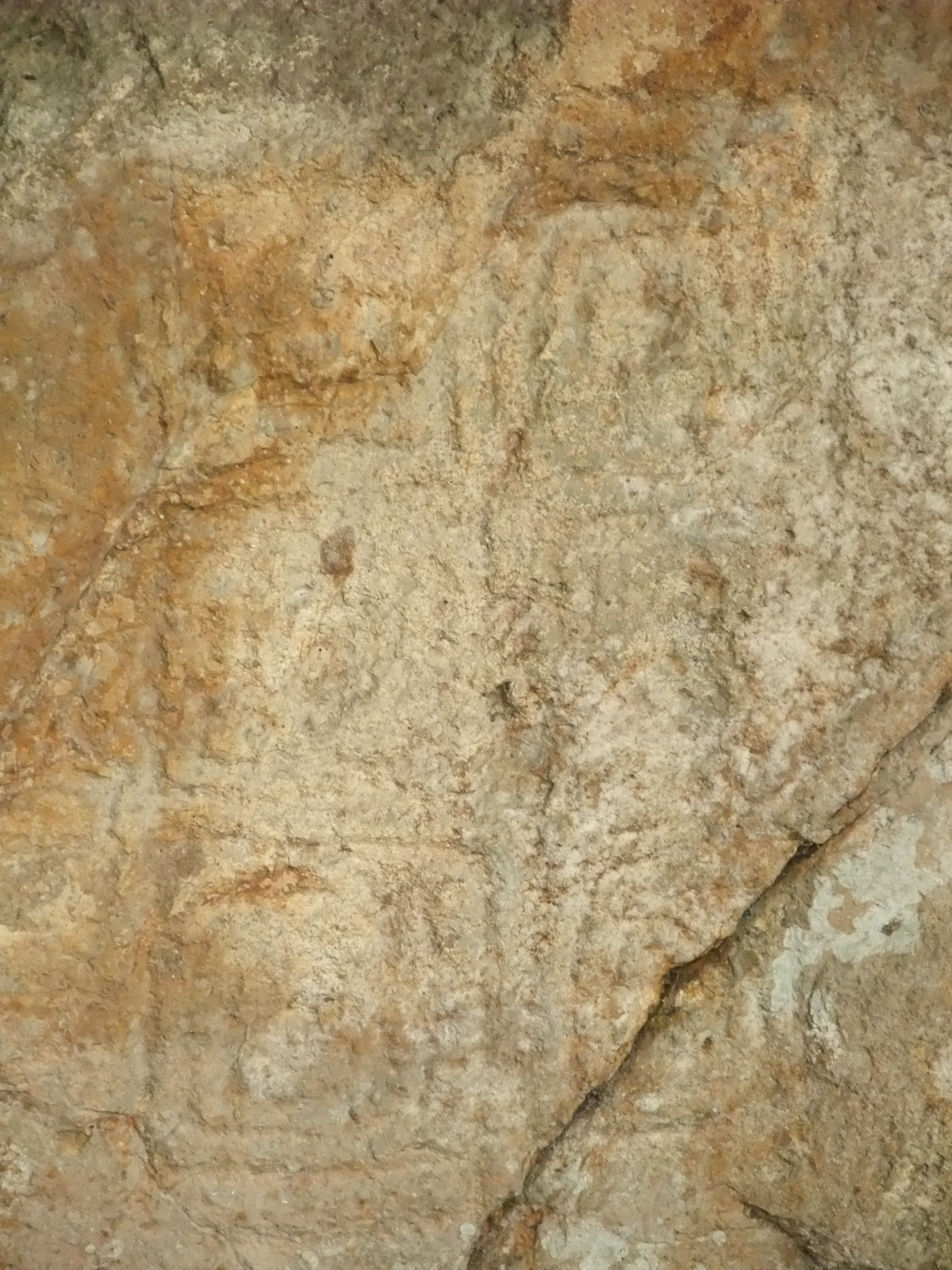 Photo of Shek Pik Rock Carving